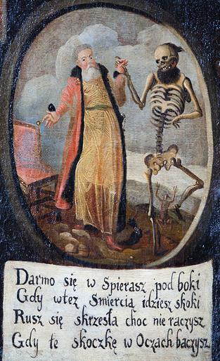 The Dance of Death - Judge or a magnate.